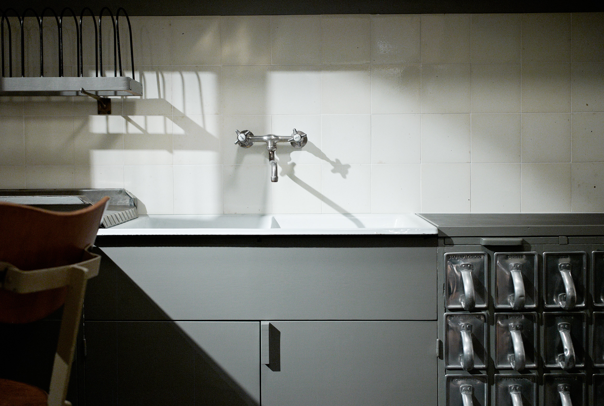 The Frankfurt Kitchen, originally designed by Architect, Margarete Schütte-Lihotzky, on display at the Moma in New York. Photograph by Jonathan Savoie